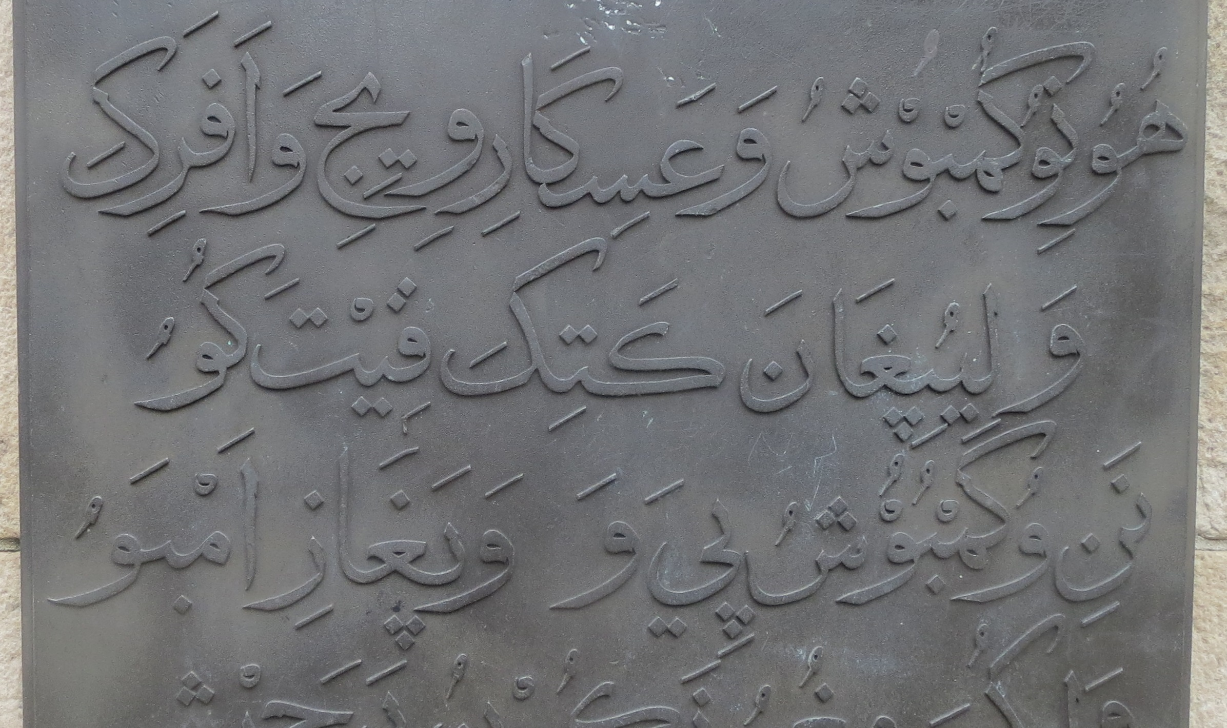 Kiswahili in Arabic alphabet - text on the (Askari Monument), Dar es Salaam.